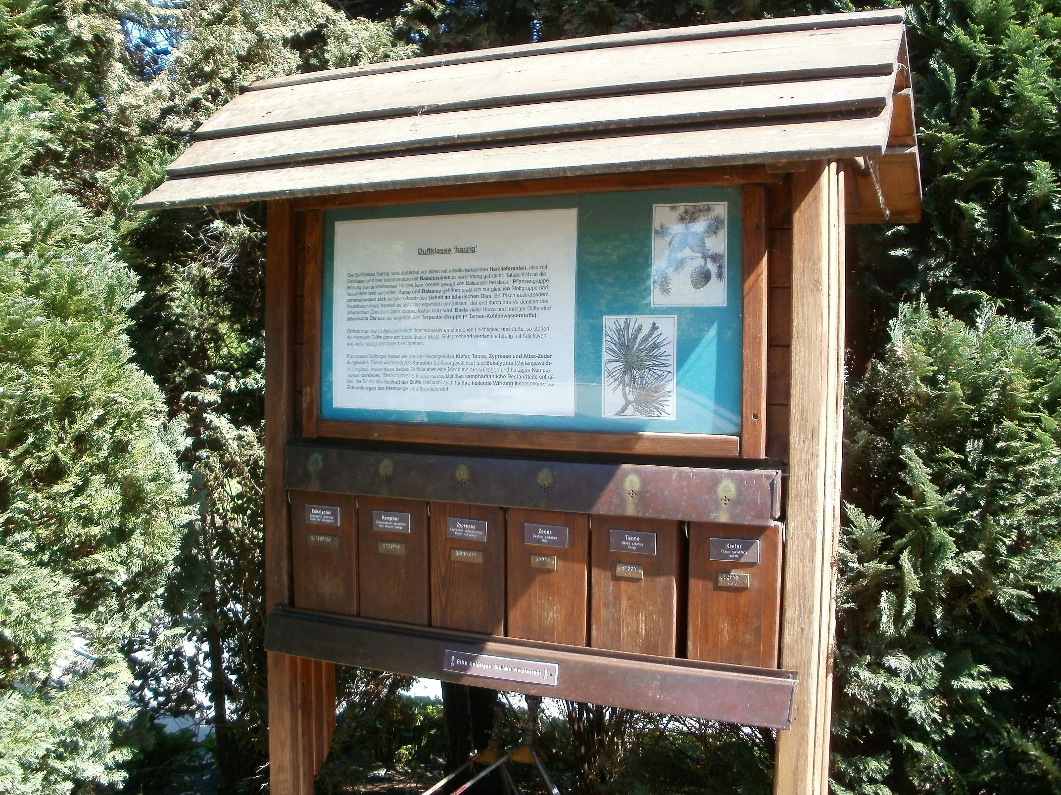 Scent organ located in the botanical garden of Hamburg, Germany.